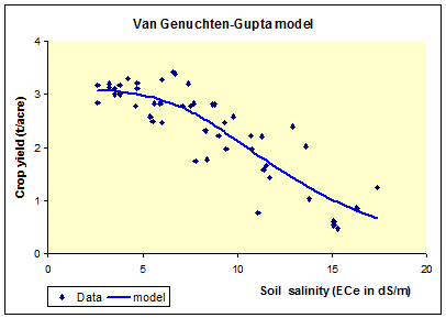 Van Genuchten-Gupta model applied to a crop yield - soil salinity relation